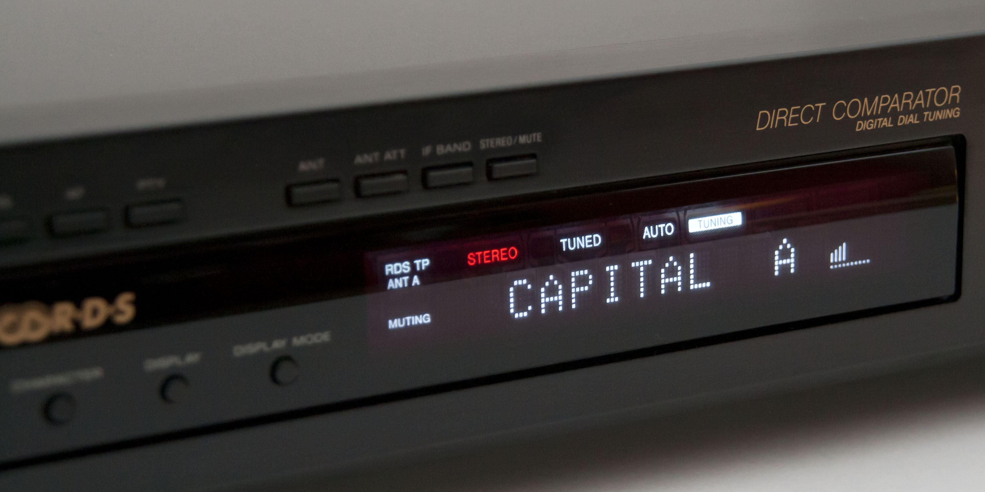 Dot Matrix fluorescent RDS Display on a Sony home receiver from 90s. The name shown belongs to a well-known italian private network.